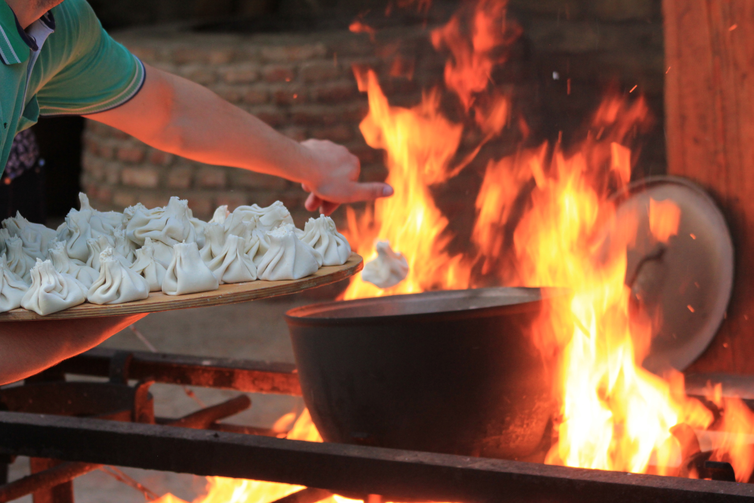 Приготовление хинкалей на костре